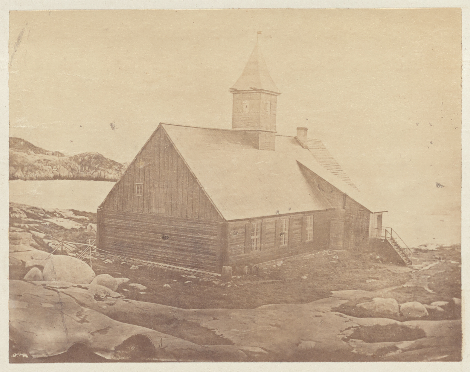 Photograph of the the Lutheran church at Jacobshaven taken in 1869